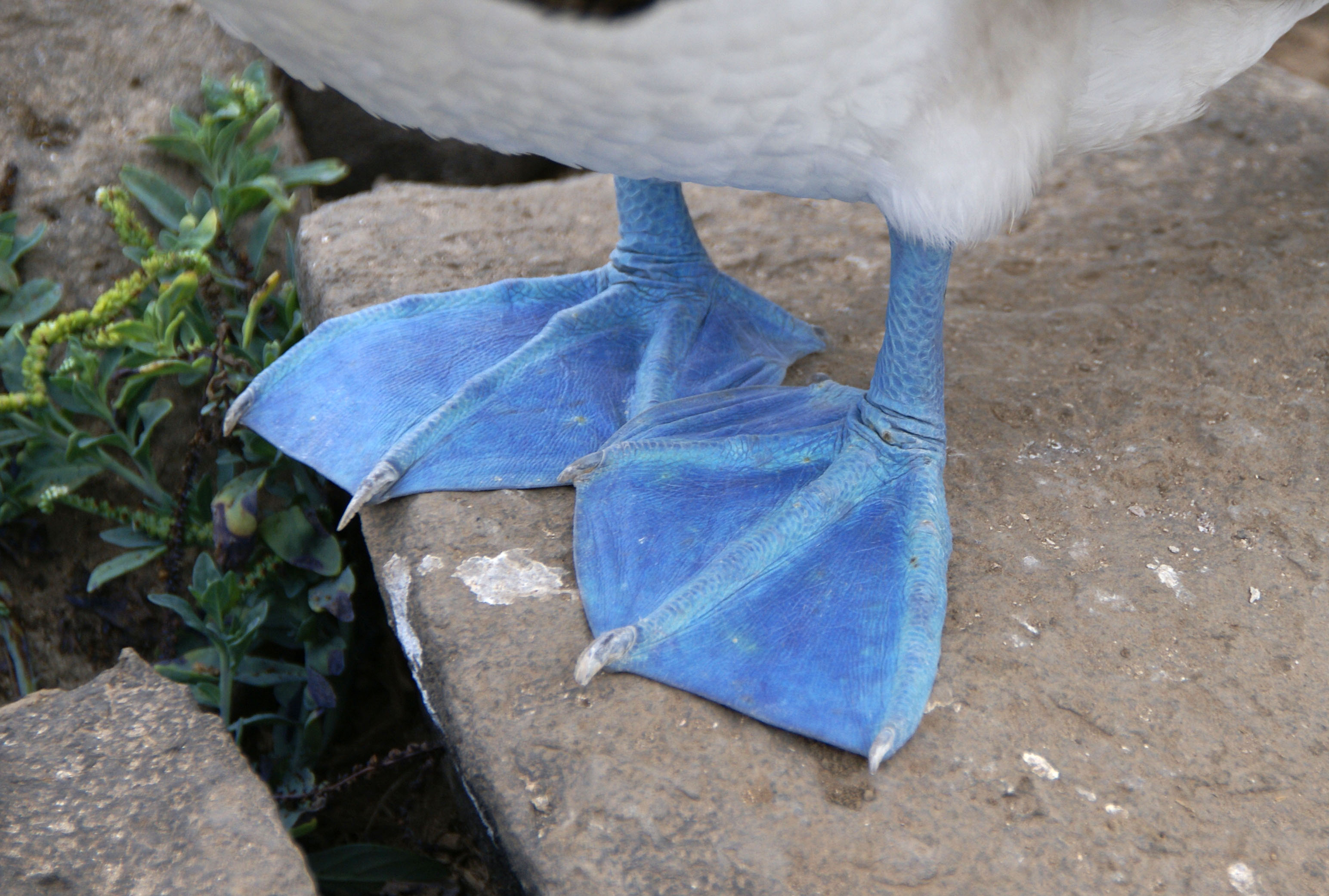 Blue-footed Booby (Sula nebouxii); shows its blue feet.